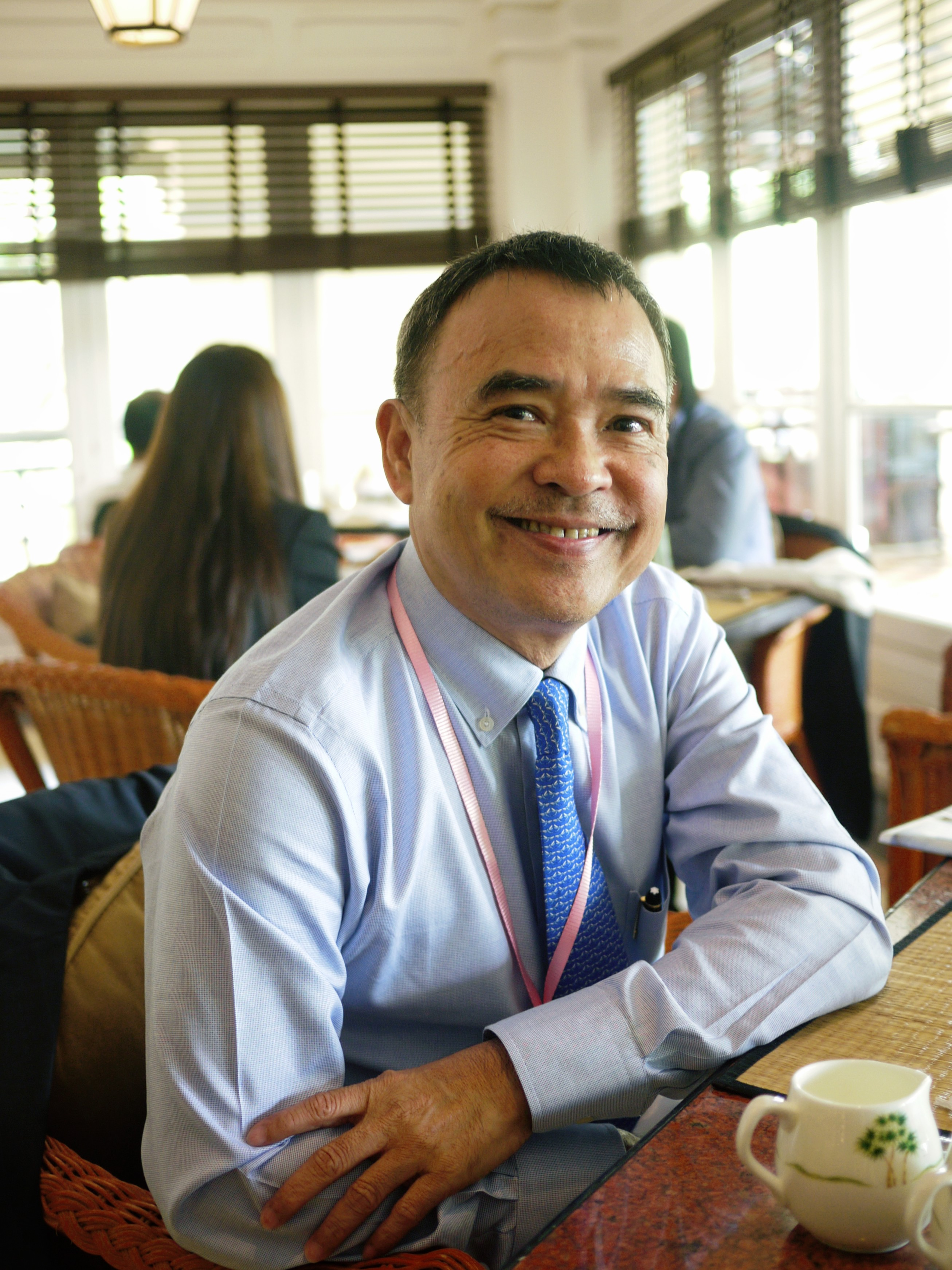 Ambassador Pou Sothirak at 2nd National Dialogue on Responsibility to Protect (R2P) and Atrocities Prevention on 22 August 2017 at Raffles Le Royale Phnom Penh.